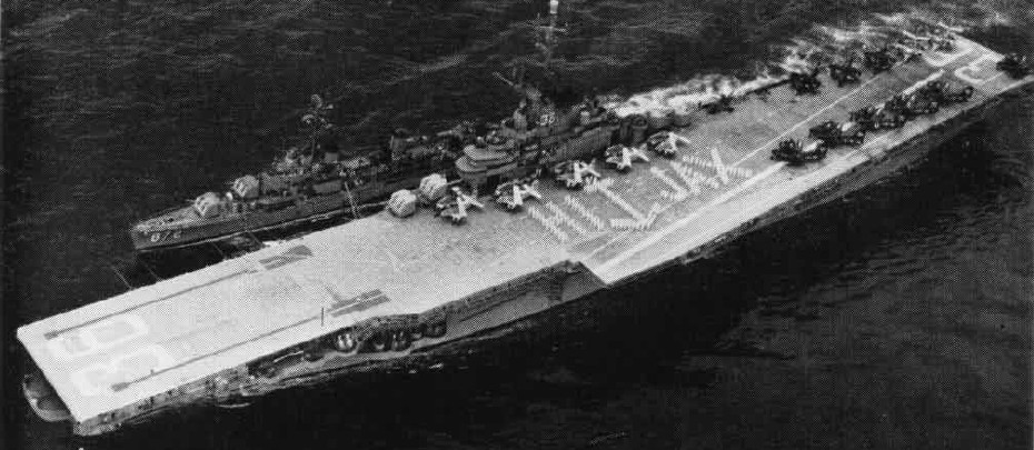 The U.S. aircraft carrier USS Antietam (CVS-36) arriving off Mayport, Florida (USA), as the new training carrier in 1957. The crew is forming "Hi Jax" on deck to greet the training base Naval Air Station Jacksonville, Florida (USA). The planes are still of her anti-submarine air group, Douglas AD-5W Skyraiders next to the island and Grumman S2F-1 Trackers aft. The Gearing-class destroyer USS Forrest Royal (DD-872) is steaming alongside and being refueled.